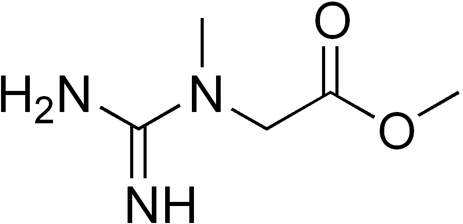 chemical structure of creatine methyl ester